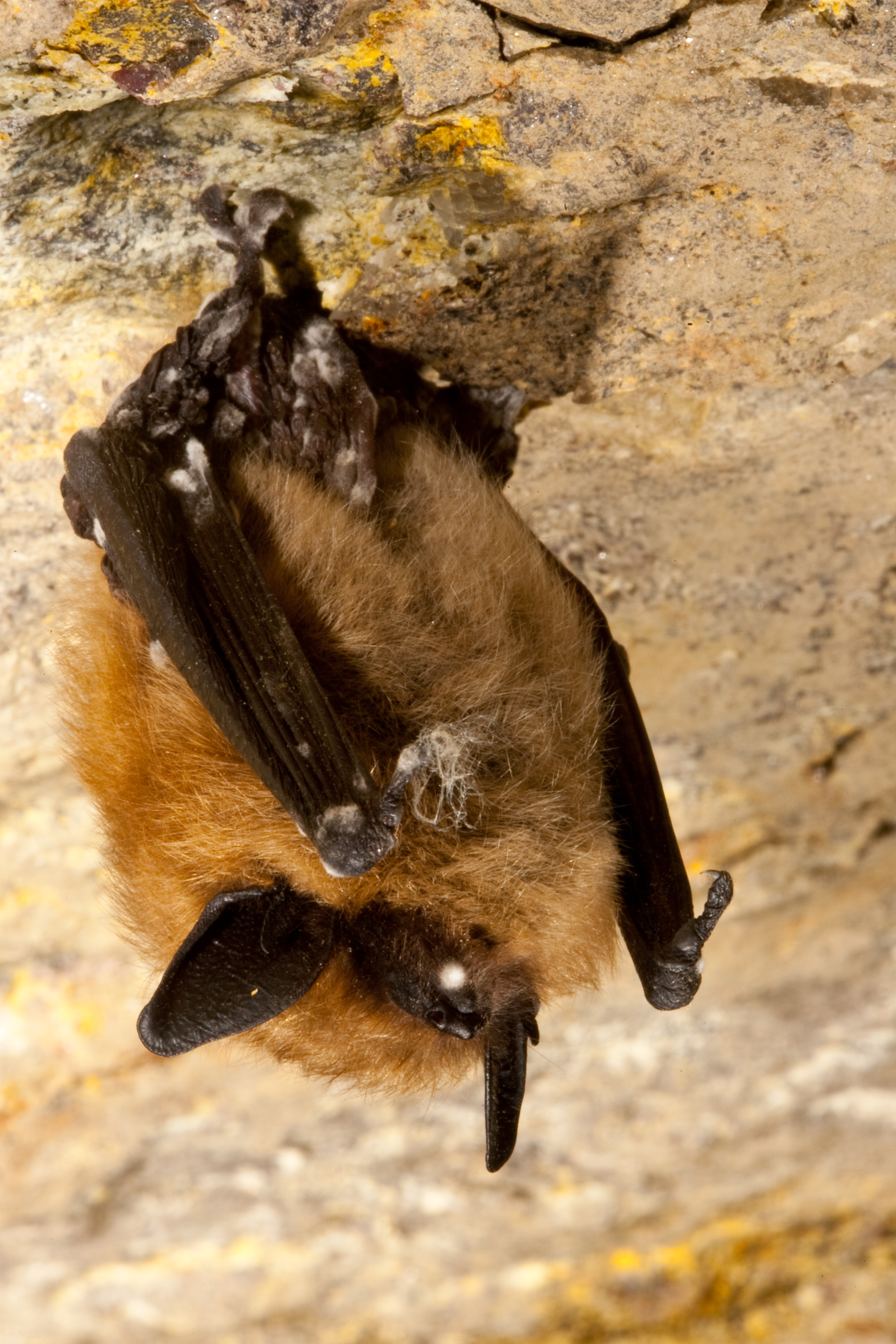 Myotis lebeii with white-nose syndrome photo credit: Ryan von Linden/NYDEC